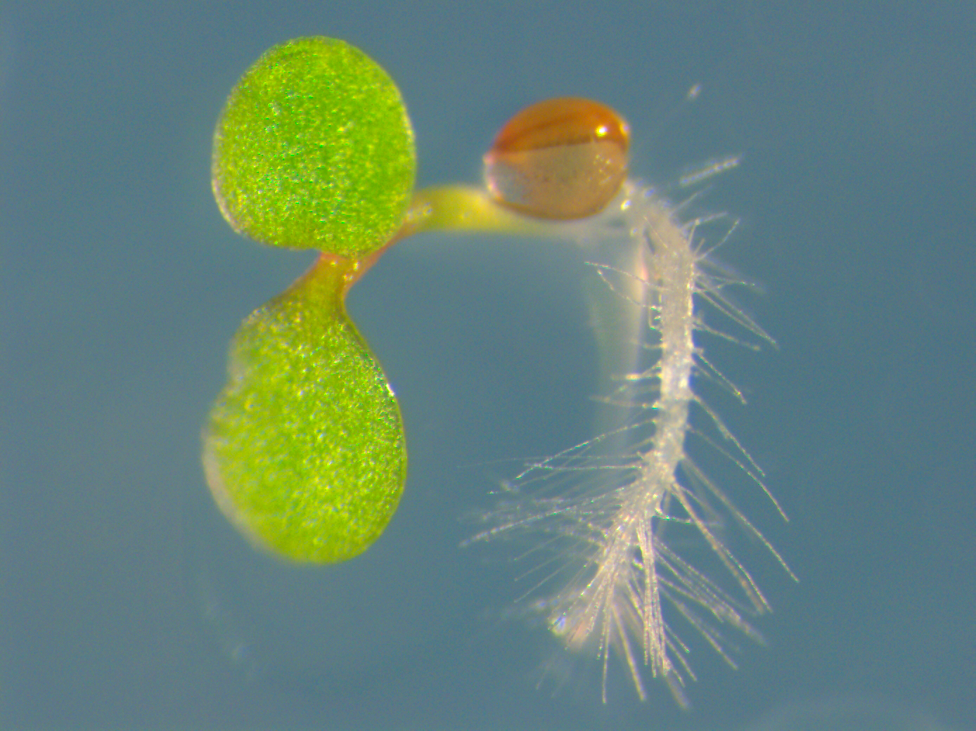 Arabidopsis thaliana seedling grown in vitro on MS media